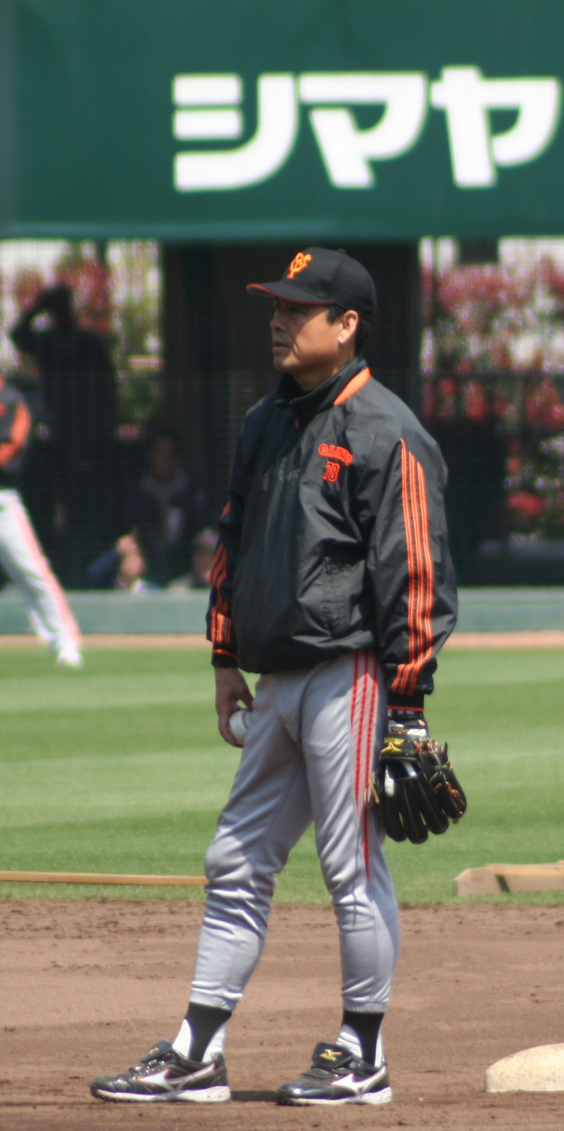 Haruki Ihara, coach of the Yomiuri Giants, at MAZDA Zoom-Zoom Stadium Hiroshima.